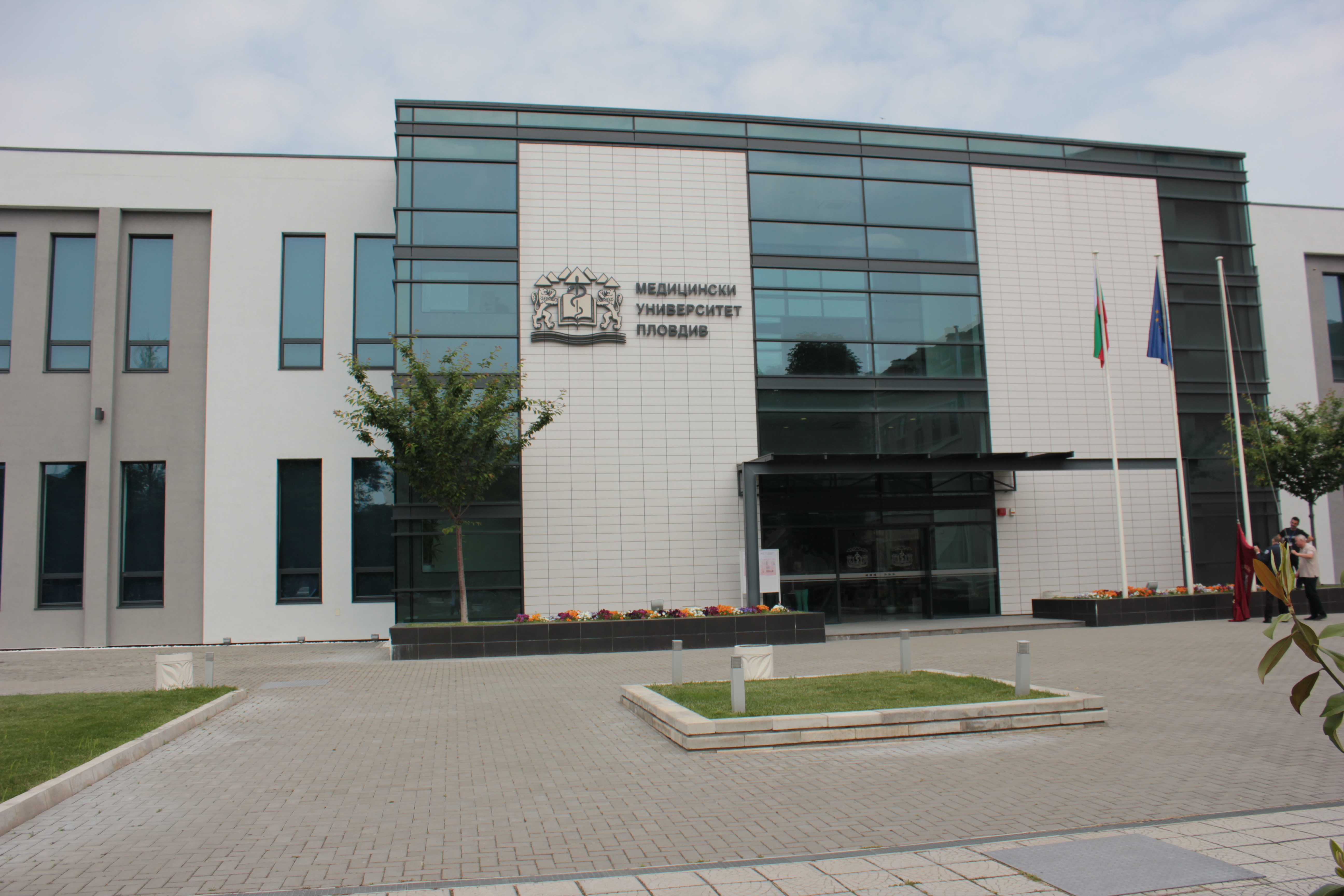 Plovdiv Medical Unoversity